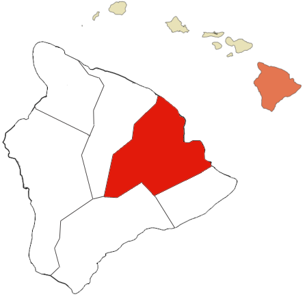 Map of Hilo district, Hawaii